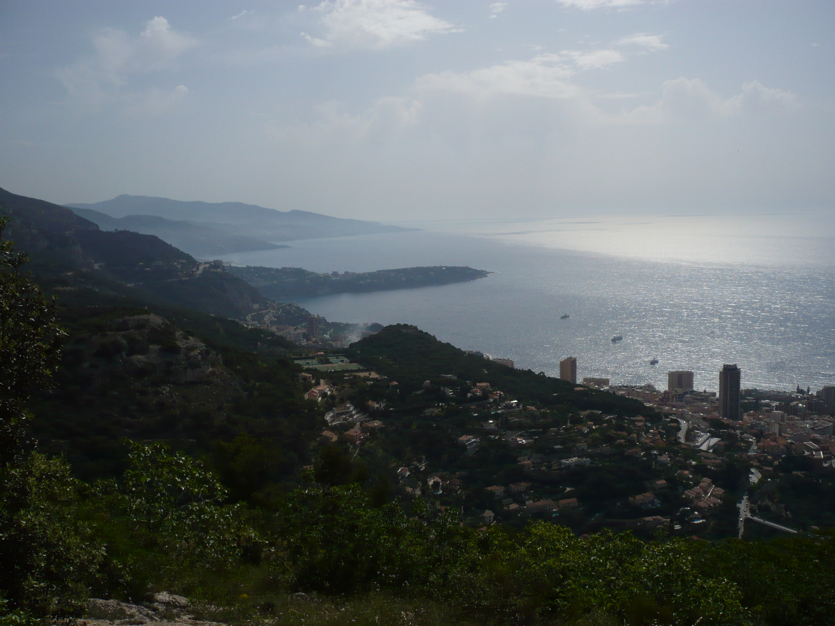 France and Italy from La Turbie